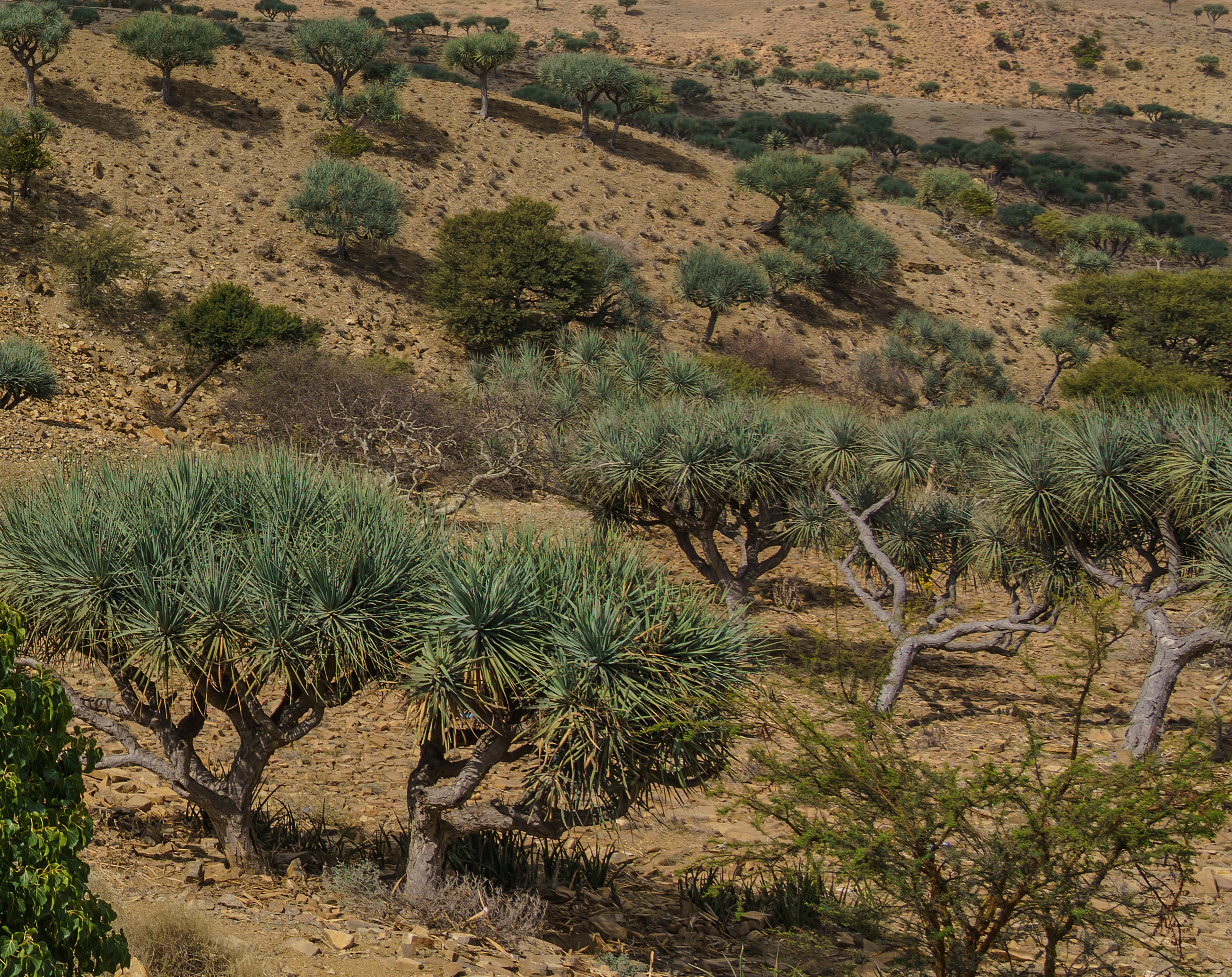 Dracaena ombet / Surroundings of Abala town, Afar Region, Ethiopia